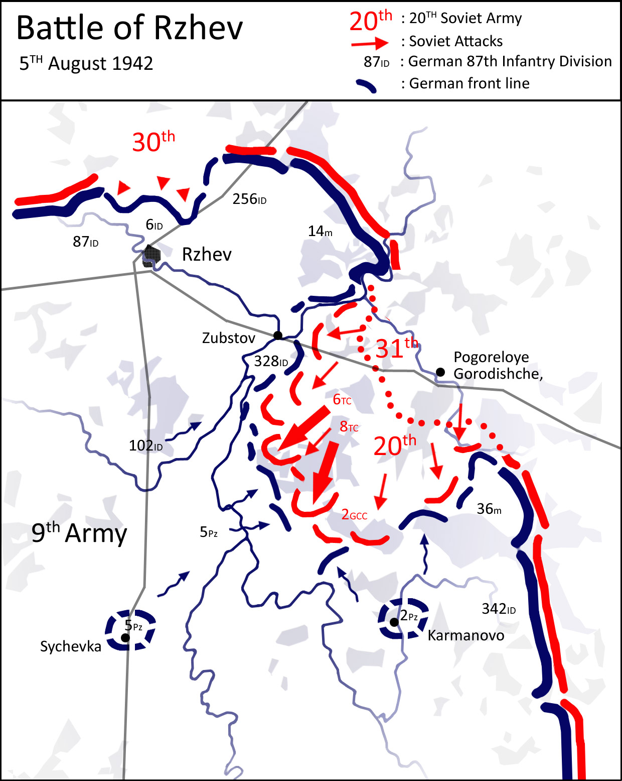 Battle of Rzhev - Summer 1942, Soviet Western Front continues its attack against Army Group Center